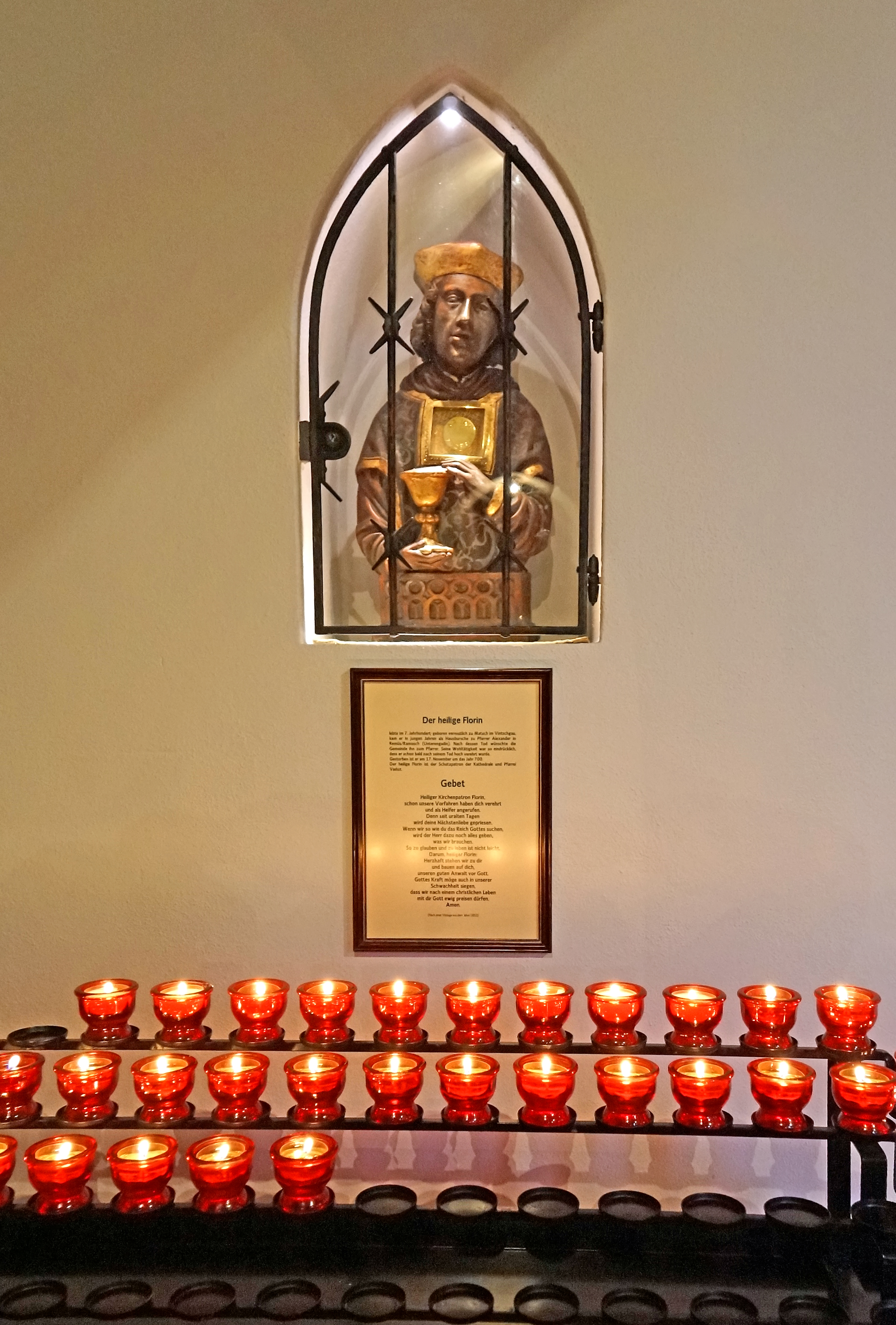 Cathedral of St. Florin, Vaduz